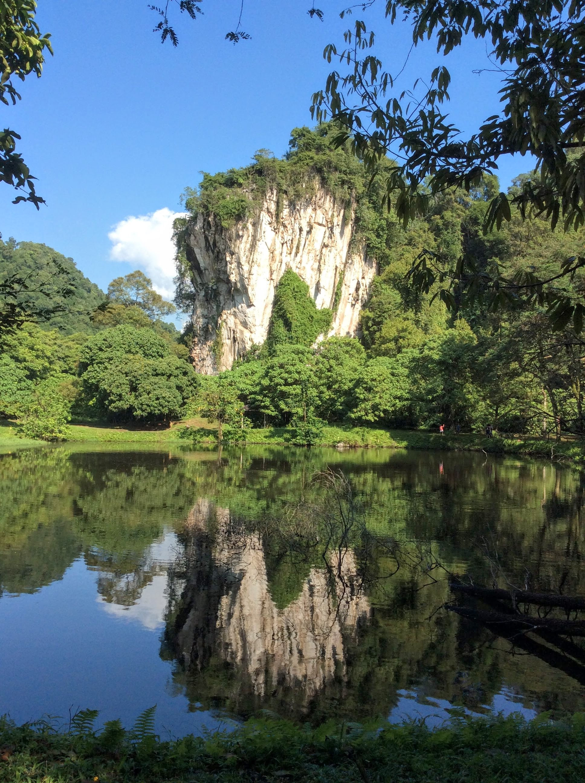 Who would have known that nature could be this beautiful?